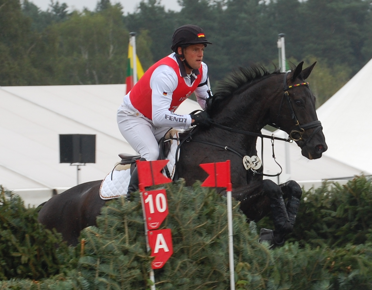 Andreas Ostholt and Franco Jeas, cross-country phase, 2011 European Eventing Championship, Luhmühlen